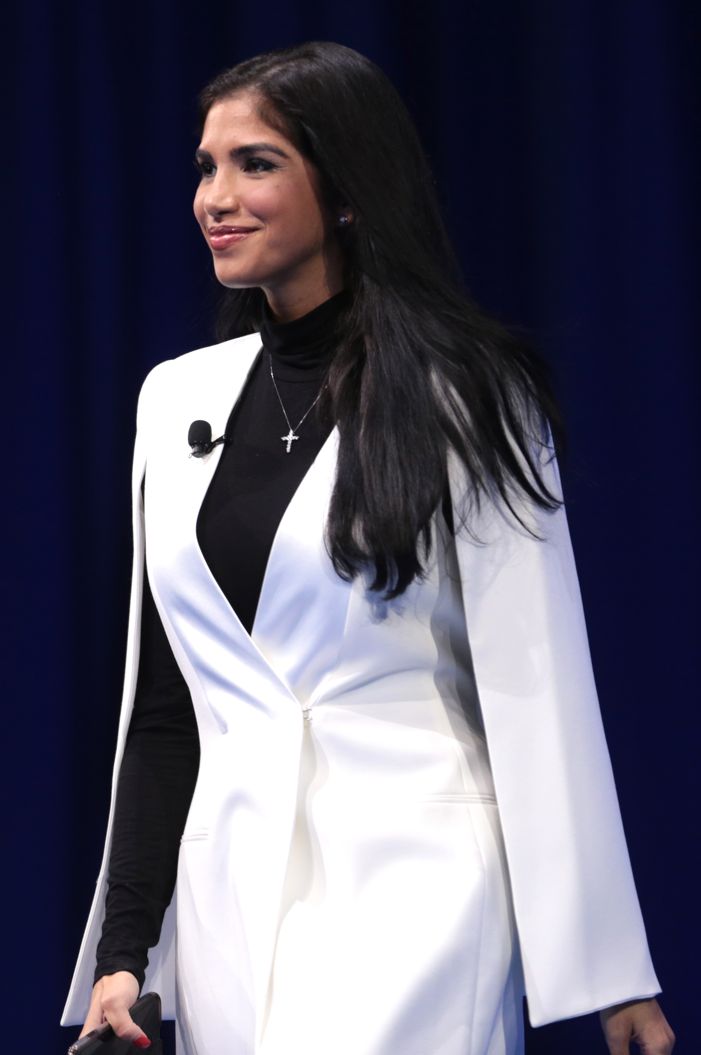 Madison Gesiotto speaking at the 2017 CPAC in National Harbor, Maryland.